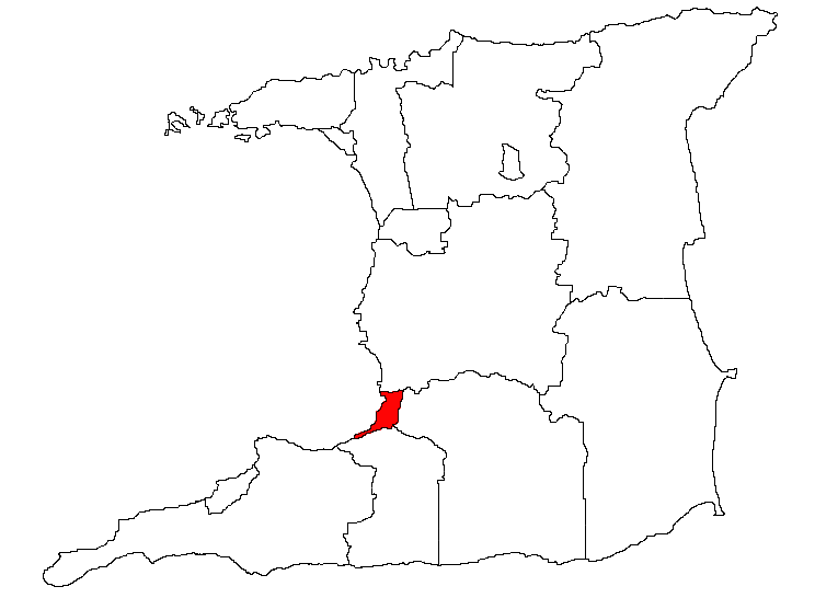 Location map of the Regional Corporation, Trinidad and Tobago